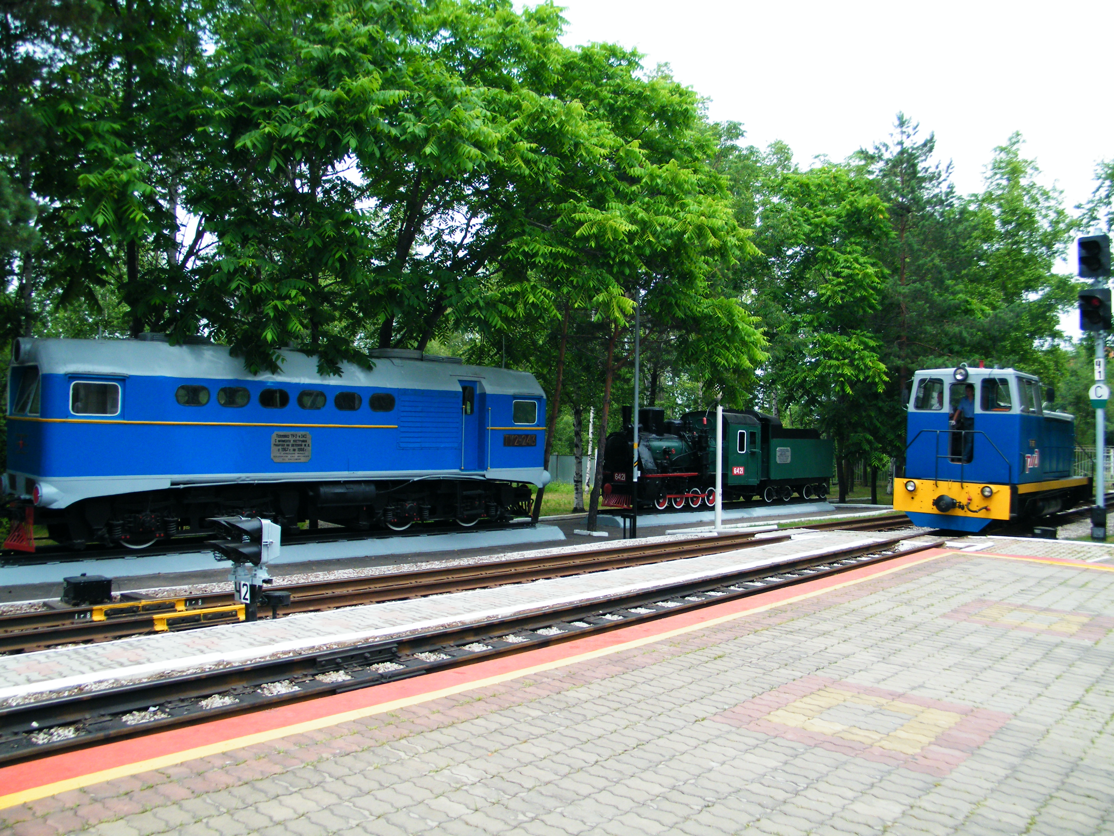 Malaya Dalnevostochnaya, Khabarovsk